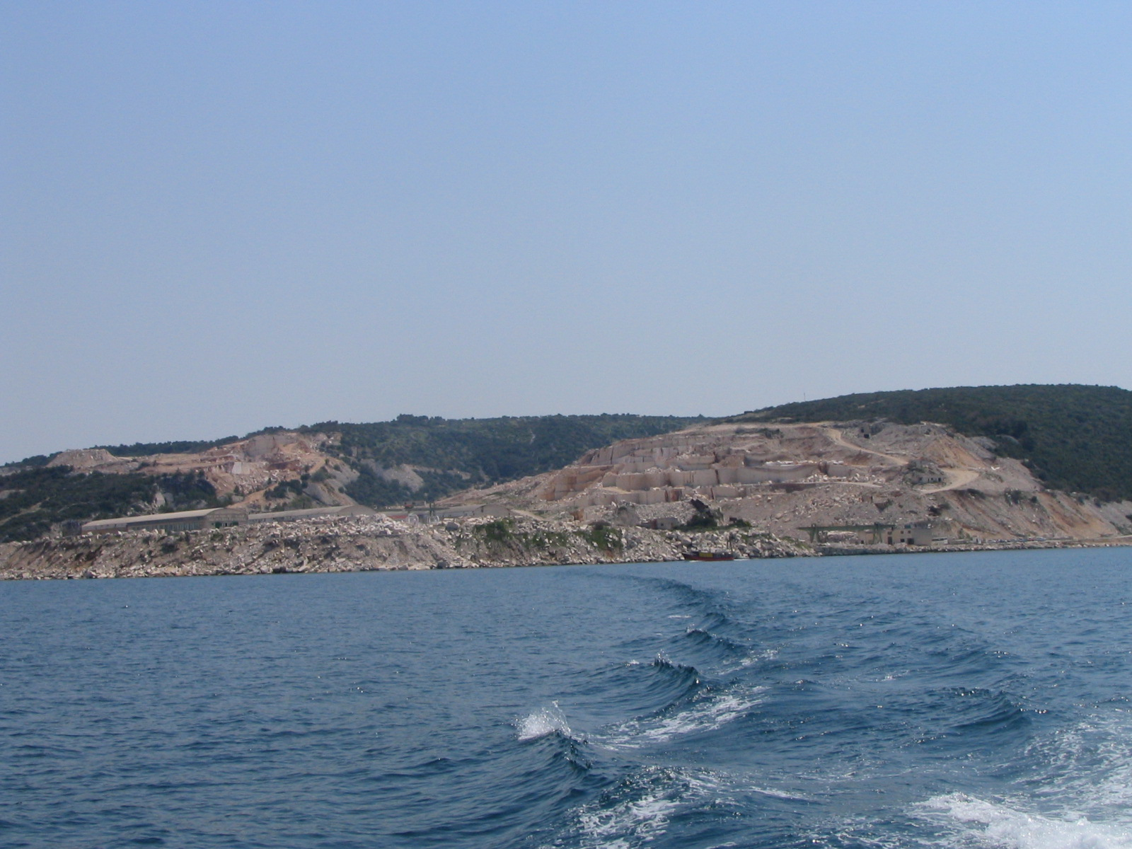 Stone mines near Pučišća, island of Brač (Croatia). Own photo.